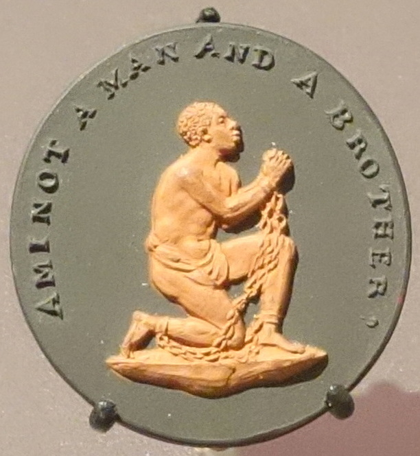 Exhibit in the Brooklyn Museum - Brooklyn, New York, USA. This artwork is in the public domain because the artist died more than 70 years ago.